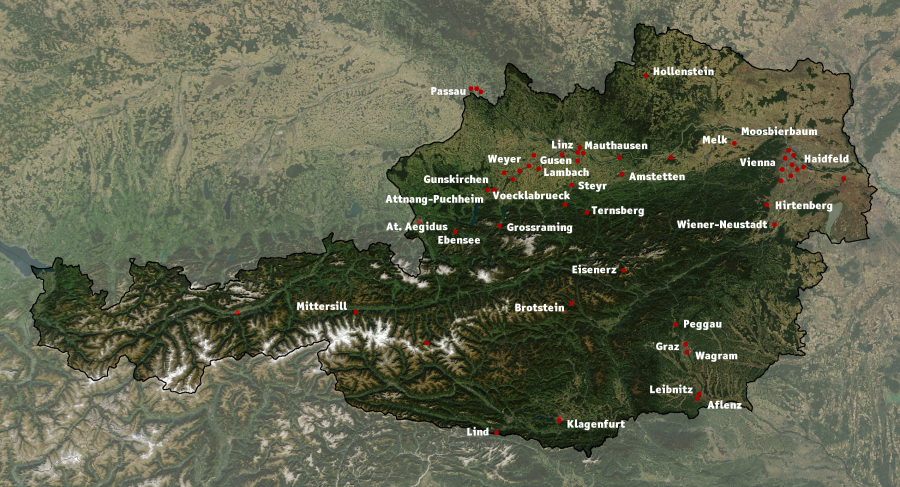 A satellite map of Austria with some of the sub-camps of the Mauthausen-Gusen concentration camp marked